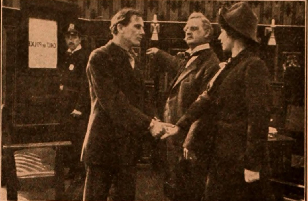 A film still from Love and Law by the Thanhouser Company. Released in 1910.